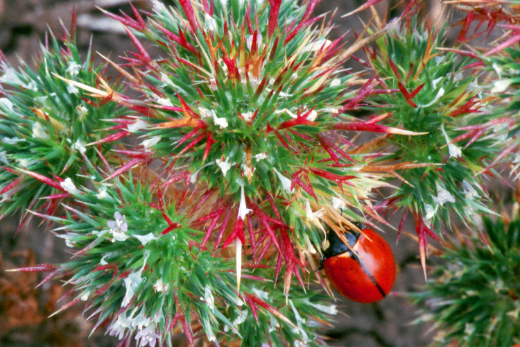 Needleleaf Pincushionplant (Navarretia intertexta) – Spring is here and the flowers are in full bloom at one of Oregon's natural gems. Located on the western edge of Eugene, Oregon, the West Eugene Wetlands (WEW) is a beautiful and rare area of grassland habitats. Comprised of less than one percent of the original native wet prairie, the WEW is home to over 200 species of wildflowers, plants, birds, and animals, including four threatened and endangered species: Fender’s blue butterfly, Kincaid’s lupine, Bradshaw’s lomatium, and Willamette daisy. The BLM's Eugene District, in collaboration with other Rivers to Ridges partners, works to protect and restore this vital wetland ecosystem in the Southern Willamette Valley. This unique project involves federal, state, and local agencies, as well as non-profit organizations, working together to manage lands and resources in an urban area for multiple public benefits. Each year, Willamette Resources & Educational Network (WREN) provides hands-on, minds-on environmental education to over 1,500 local students. For directions or to plan a visit to the West Eugene Wetlands